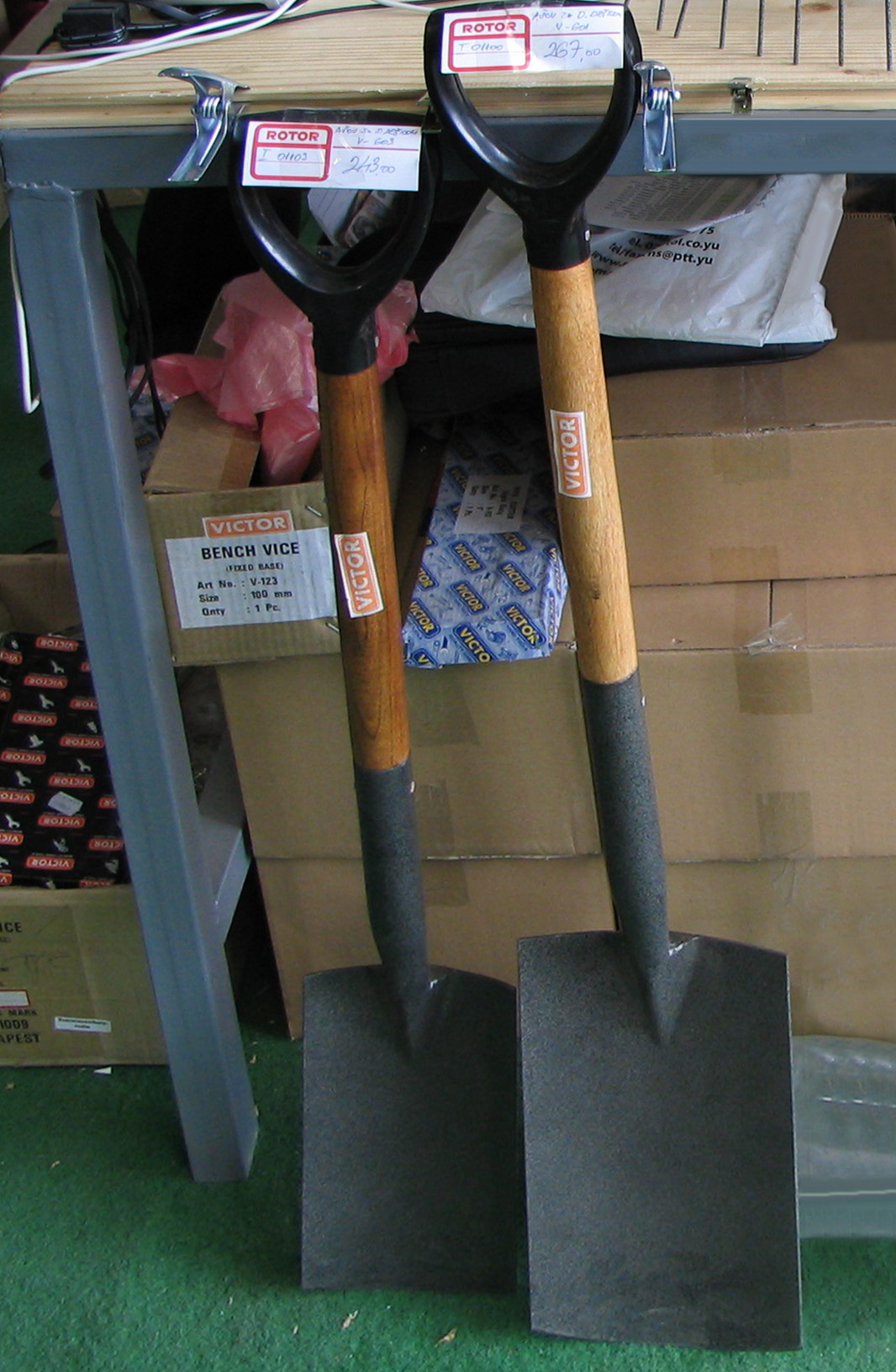 D-spades.